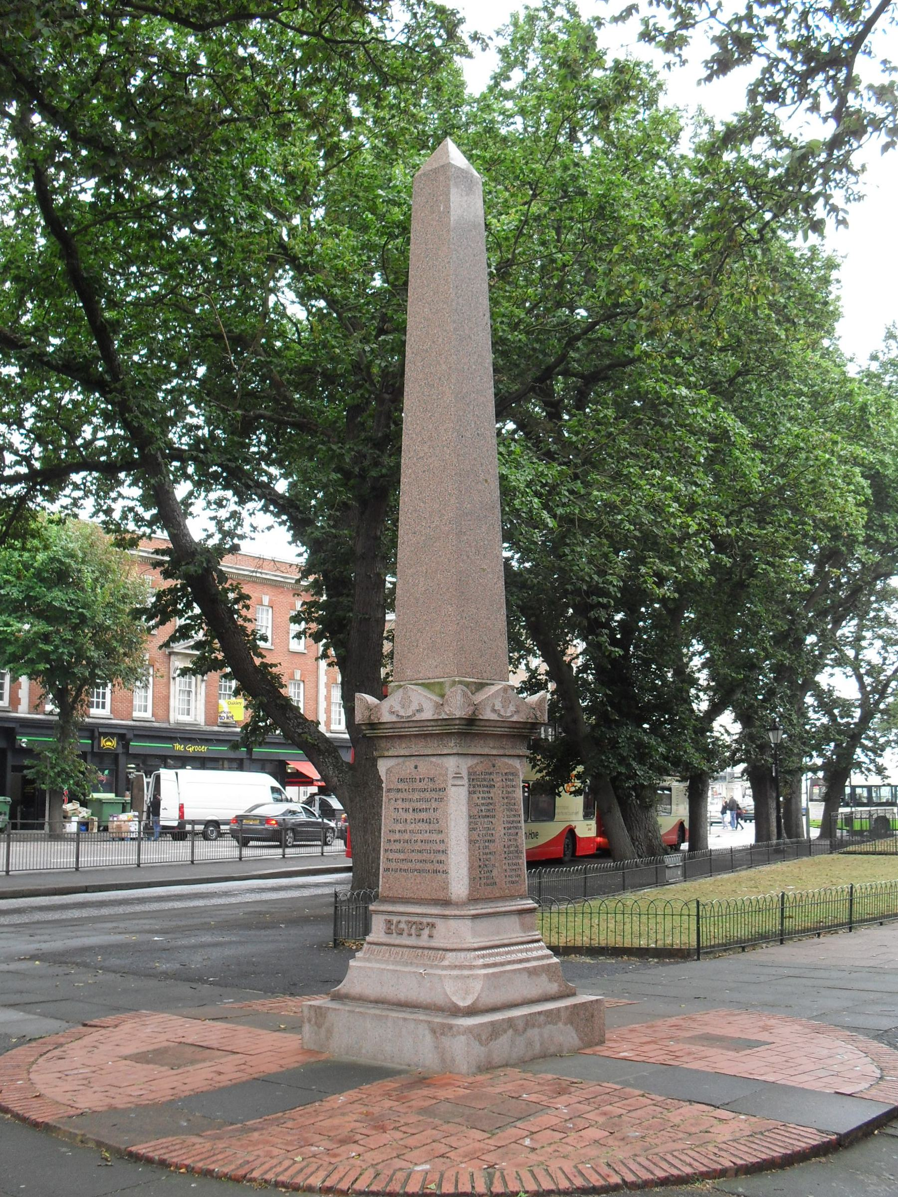 Egyptian Campaign Memorial, Old Steine, Brighton, City of Brighton and Hove, East Sussex. A marble and pink granite obelisk commemorating members of the Royal Sussex Regiment killed in action in Egypt during the 1880s. Listed at Grade II by English Heritage (IoE Code 481000)